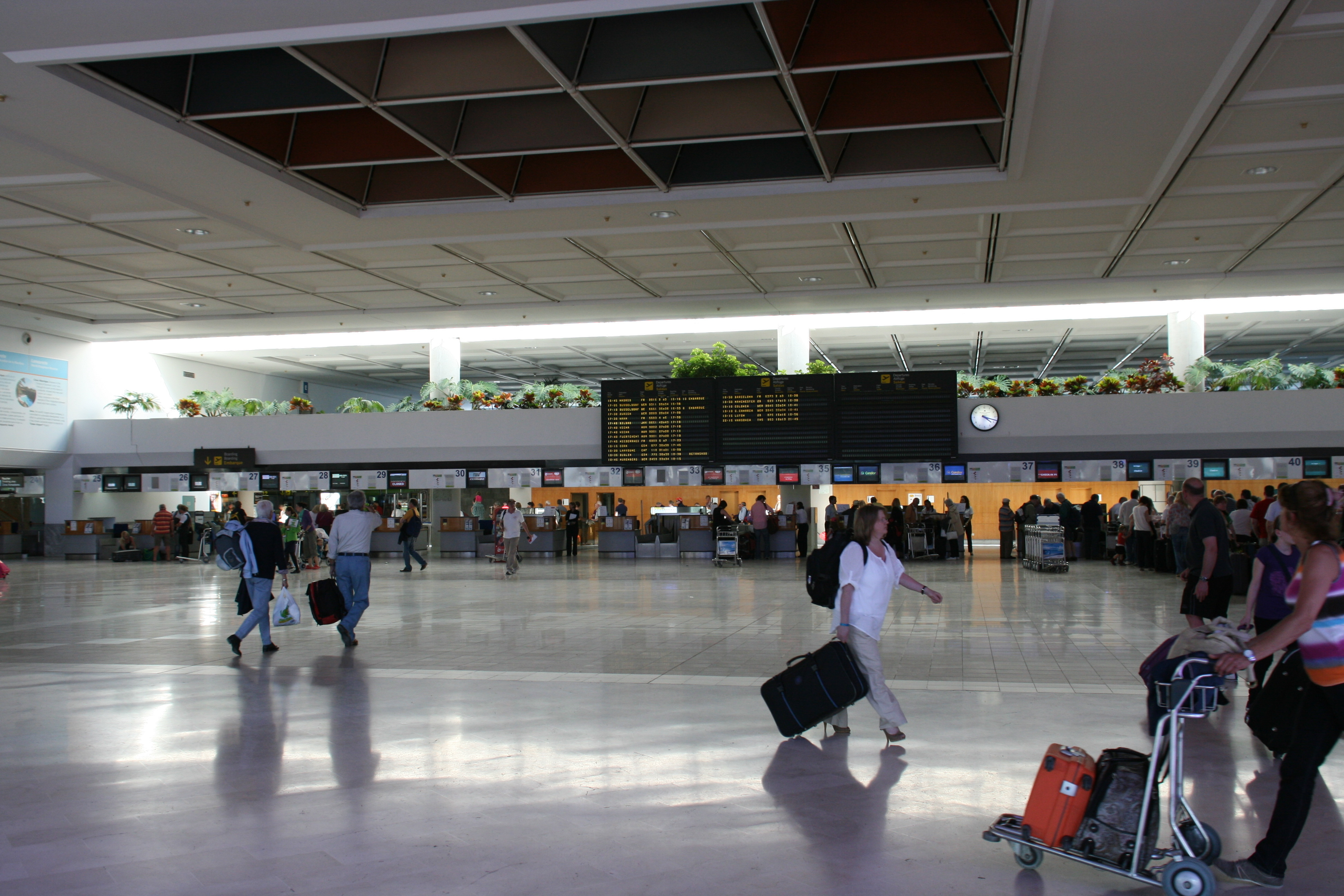 Lanzarote Airport in San Bartolomé, Lanzarote, Canary Islands